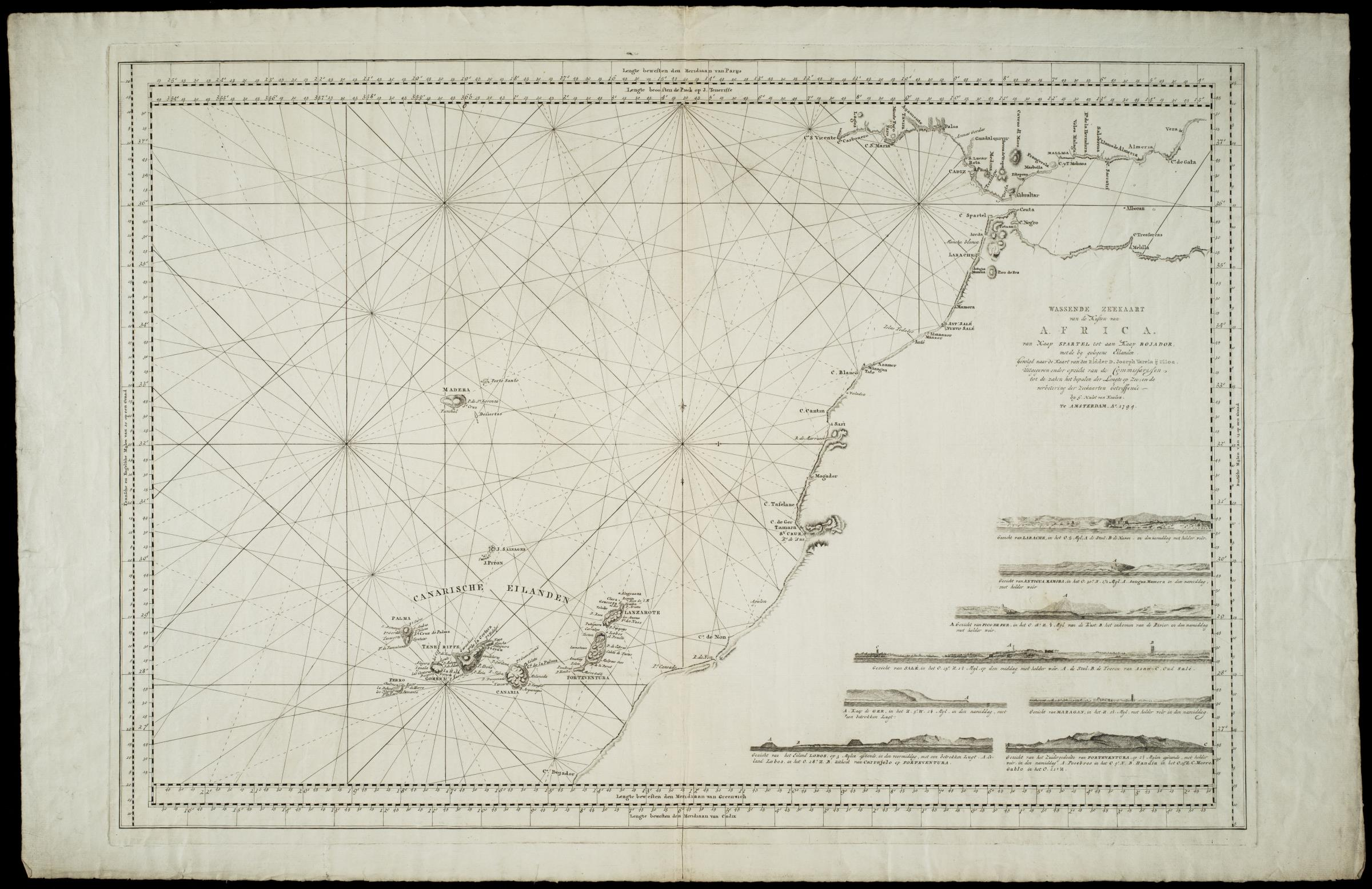 Title in the Leupe catalogue (NA): Wassende Zeekaart van de Kusten van Afrika, van Kaap Spartel tot aan Kaap Bojador, met de bijgelegen eilanden; gevolgd naar de kaart van den Ridder D. Joseph Varela y Ulloa. Published by G. Hulst van Keulen.